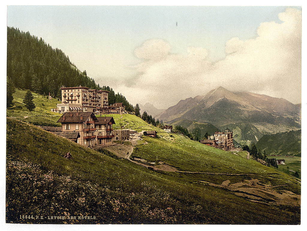 Hotels in Leysin, Vaud, Switzerland.